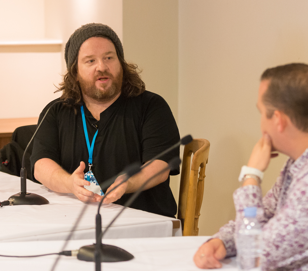 Ian Boldsworth (L) interviewing his co-host Barry Dodds (R) at QED Con 2017 for the Parapod Podcast.